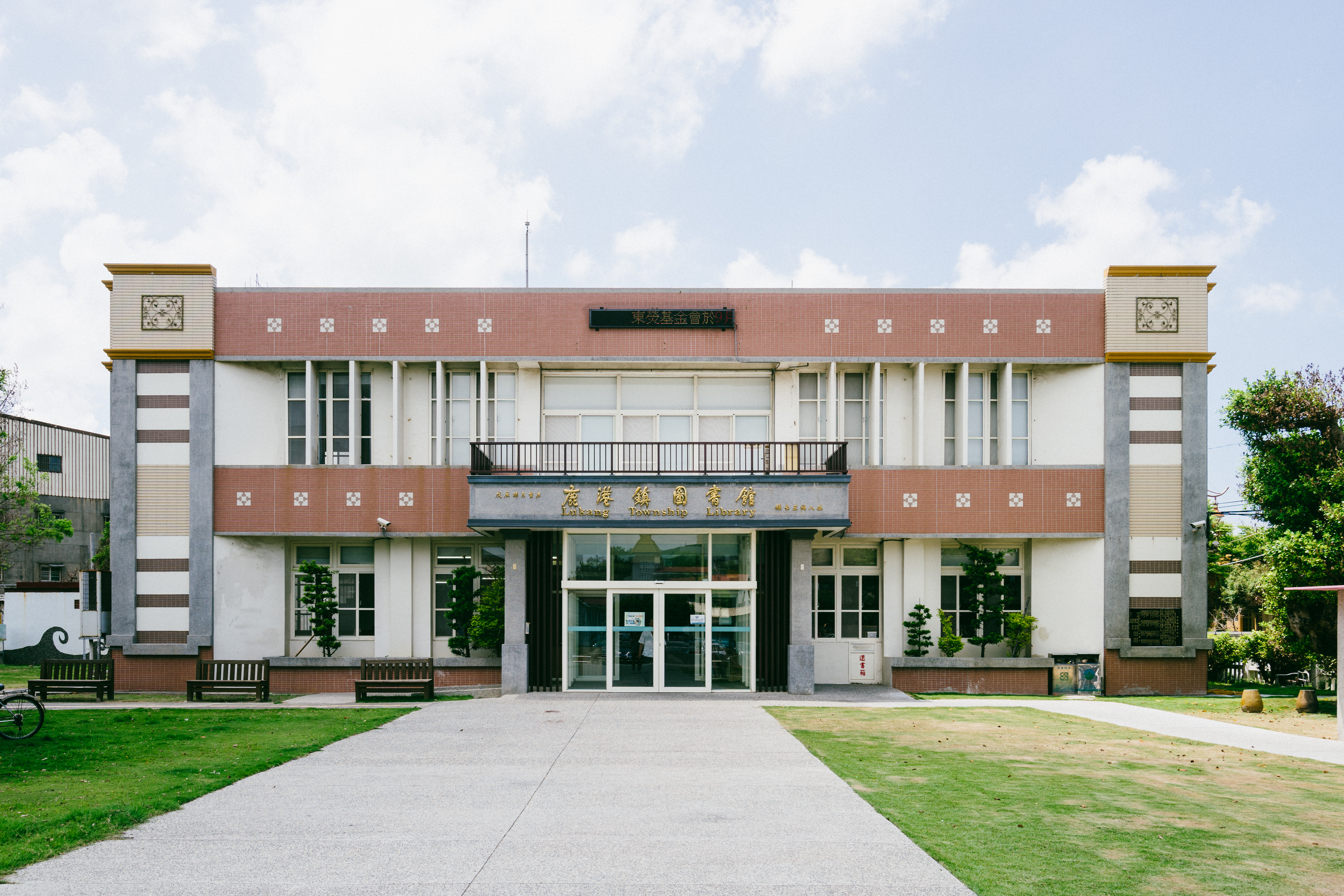 Lukang Township Library.